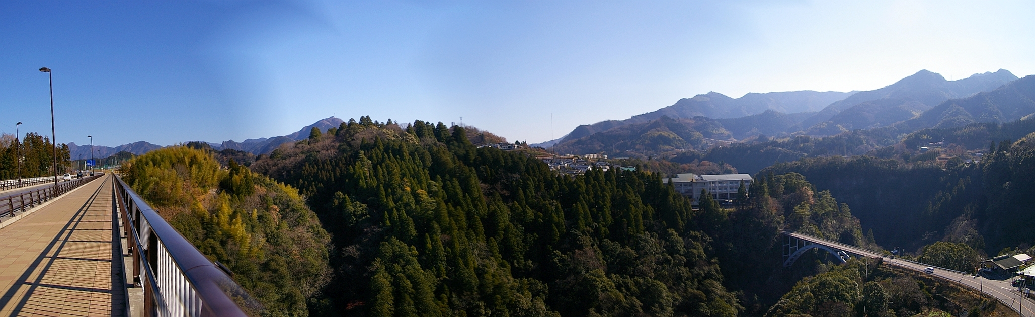 Takachiho,Miyazaki,Japan